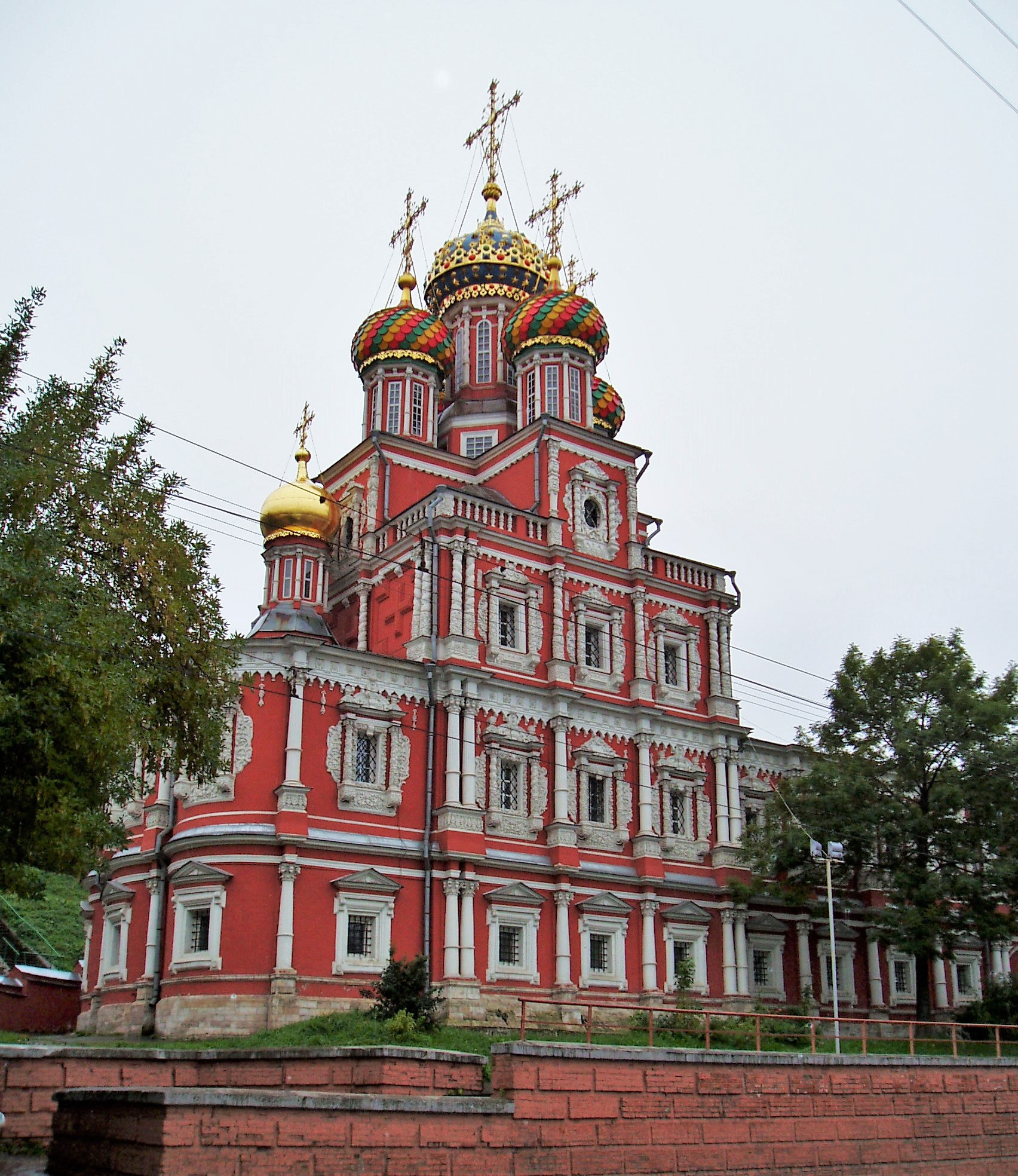 Church of the Synaxis of Our Lady, built by the Stroganovs. Nizhny Novgorod, Russia